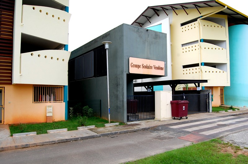 Cayenne, French Guiana: school complex Vendôme in Novaparc neighbourhood.